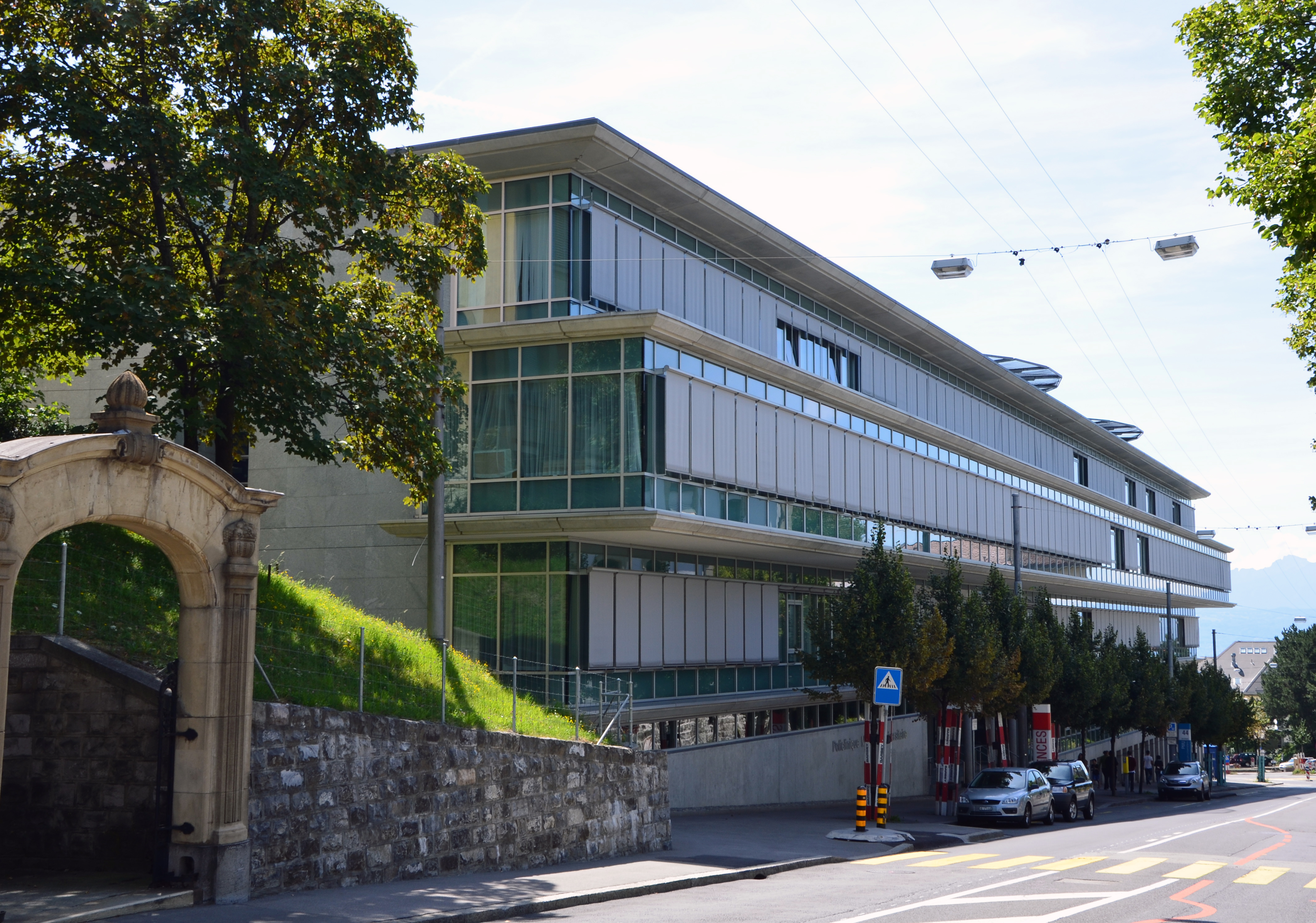 The University Medical Polyclinic (UMP) of the Vaud University Hospital Center in Lausanne (Switzerland).